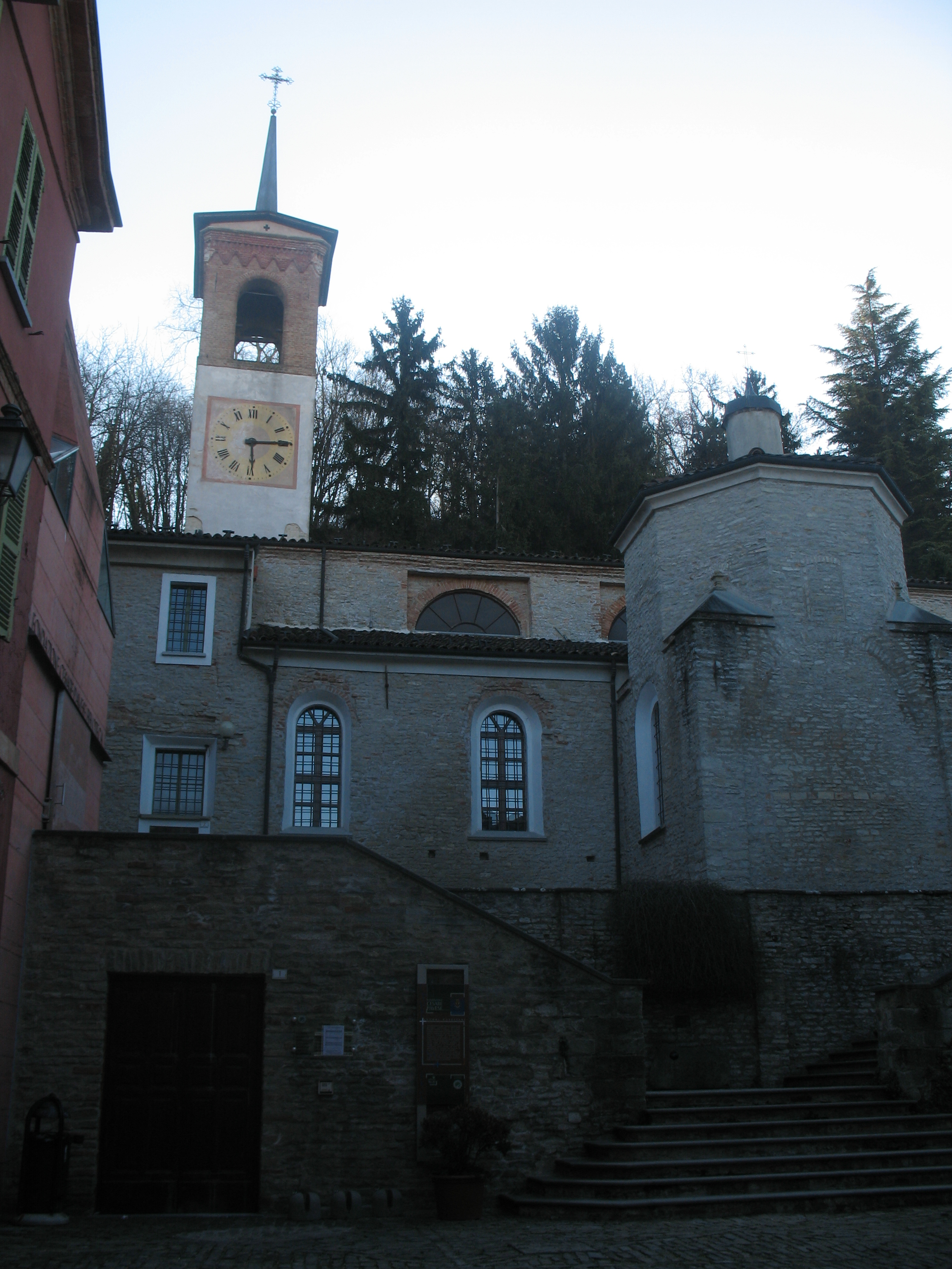 Centro Studi Cesare Pavese (Center for Studies on Cesare Pavese) and church of Saints Giacomo and Cristoforo in Santo Stefano Belbo, Piedmont, Italy.